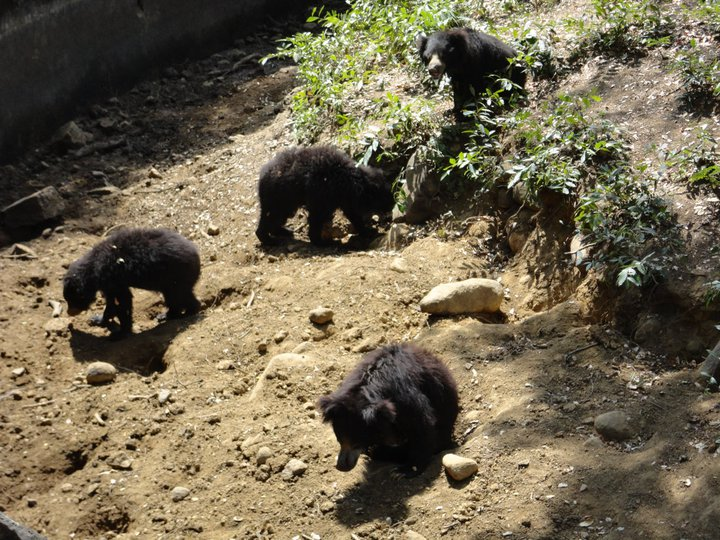 Black bears in their near-natural habitat in Vandalur zoo